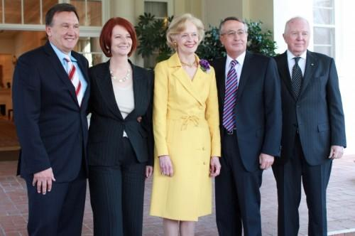 Photograph after the swearing in of Julia Gillard as 27th Prime Minister of Australia by the Governor-General of Australia Dame Quentin Bryce, on 24 June 2015 at Government House, Canberra. From left to right: Tim Mathieson Julia Gillard Quentin Bryce Wayne Swan Michael Bryce